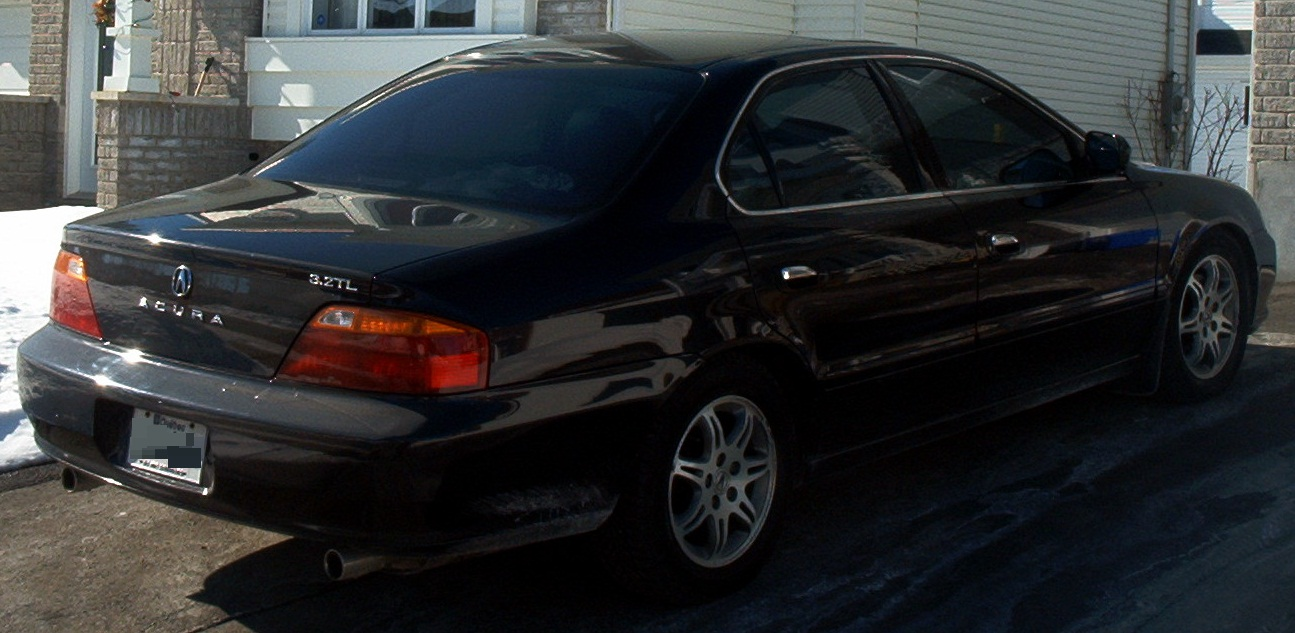 1999-2001 Acura TL photographed in Pointe-Claire, Quebec, Canada.